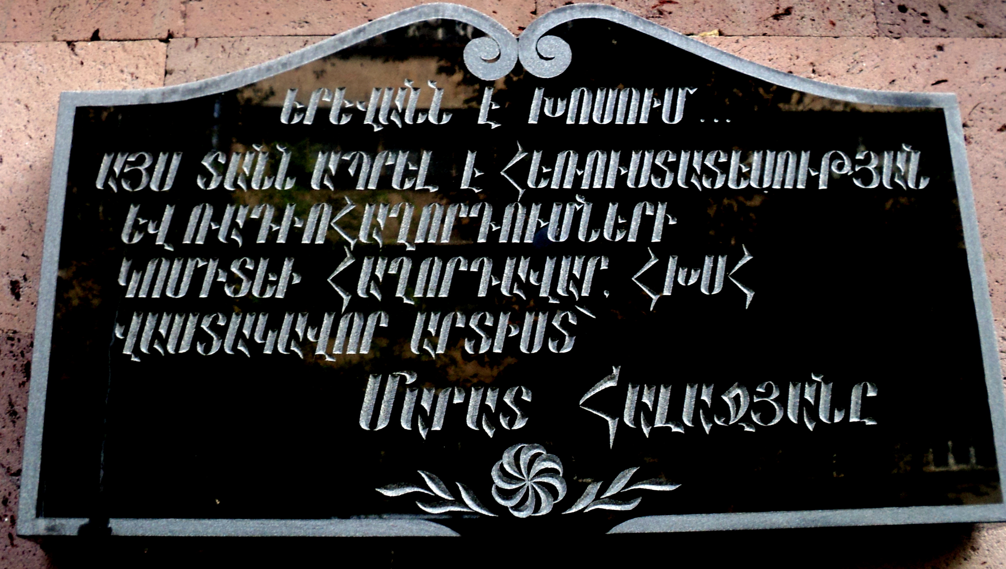 Marat Halajyan's Plaque in Yerevan